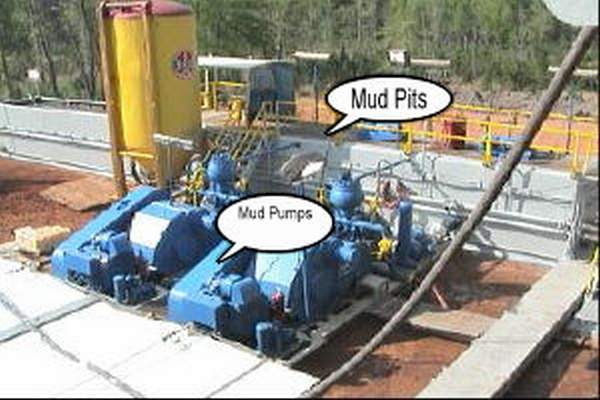 Mud pump, mud pit, mud tank